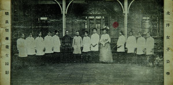 Faculty and Graduate Students, Beiyang Women's Public School